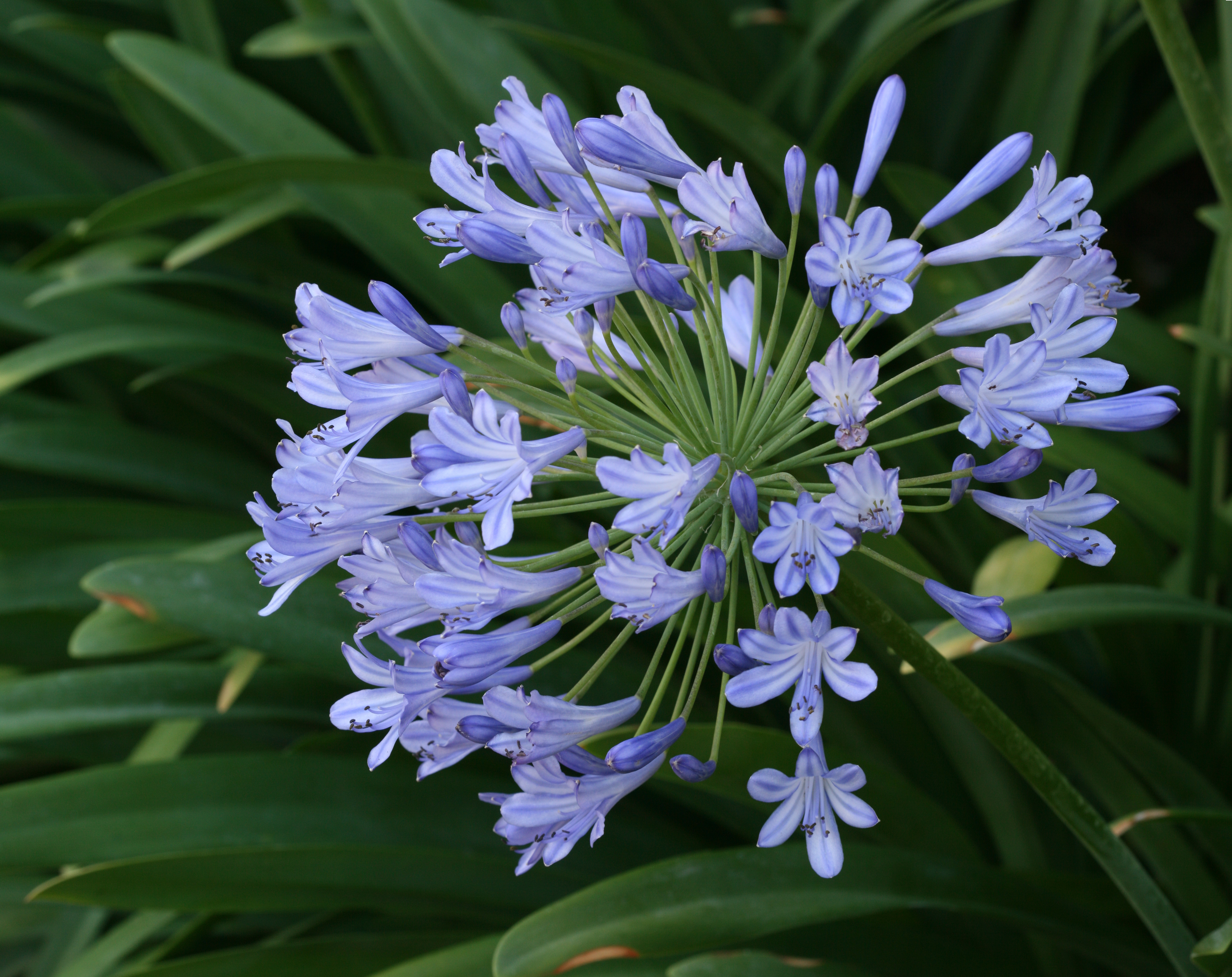 An Agapanthus flower arrangement after blooming.